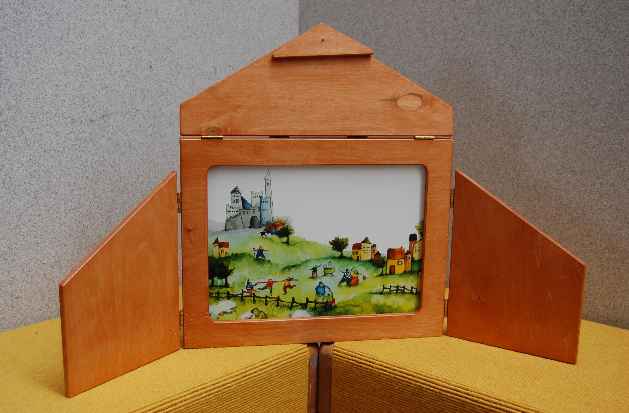 This is a story telling tool. Kamishibai is Japanese for Paper Play. Where the story pages are pulled out manually as the story continues and the story teller tells her story. Velley high tech! Lol.